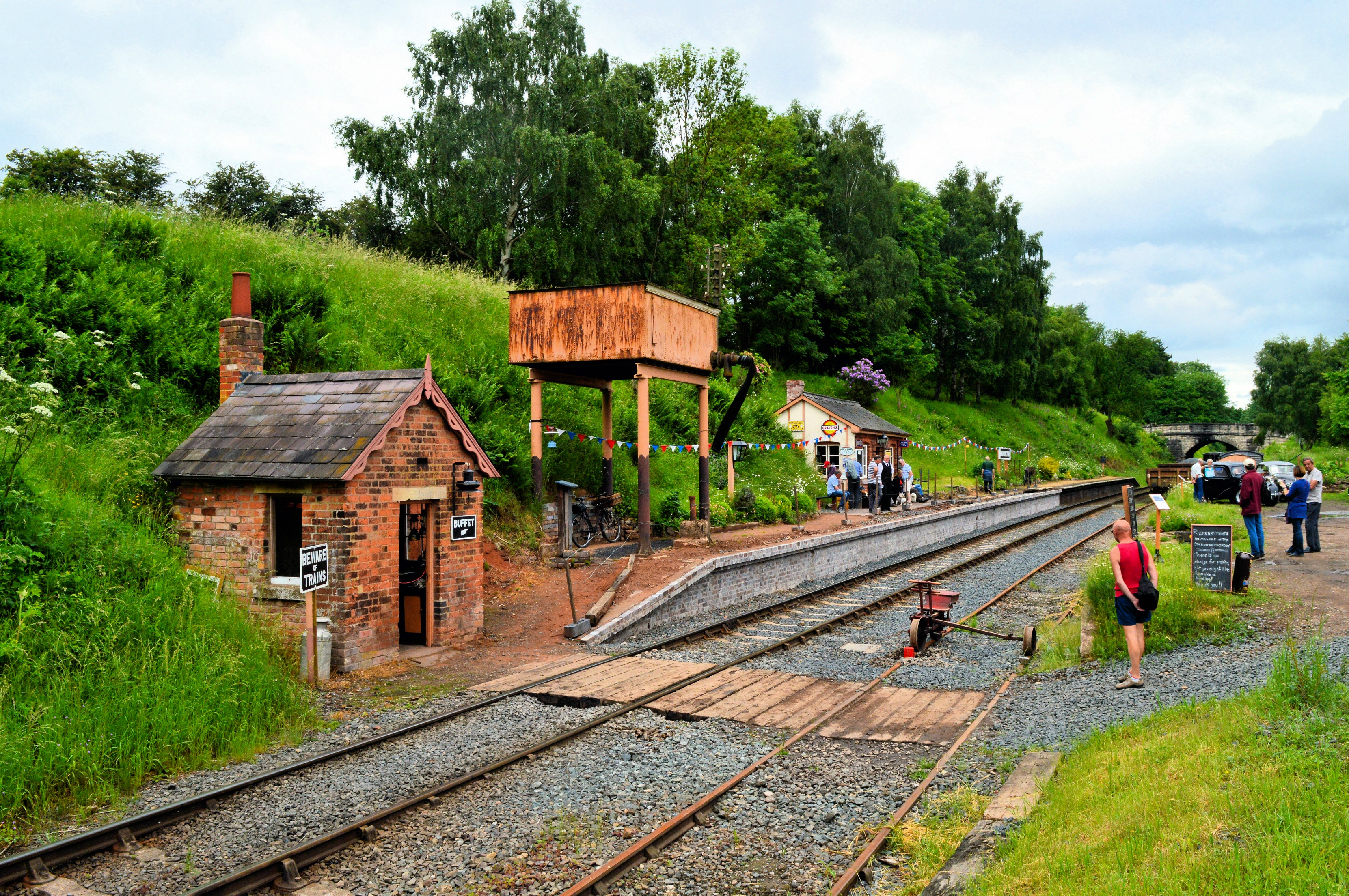 Eardington station on the Severn Valley Railway. Open in celebration of its 150th birthday. A dedicated group of volunteers are quietly restoring the station, which one day may regularly reopen for special events. 'Refreshments' included a spectacular coffee and walnut cake and a very acceptable cup of coffee. There was also a small display of vintage vehicles to add to the interest.